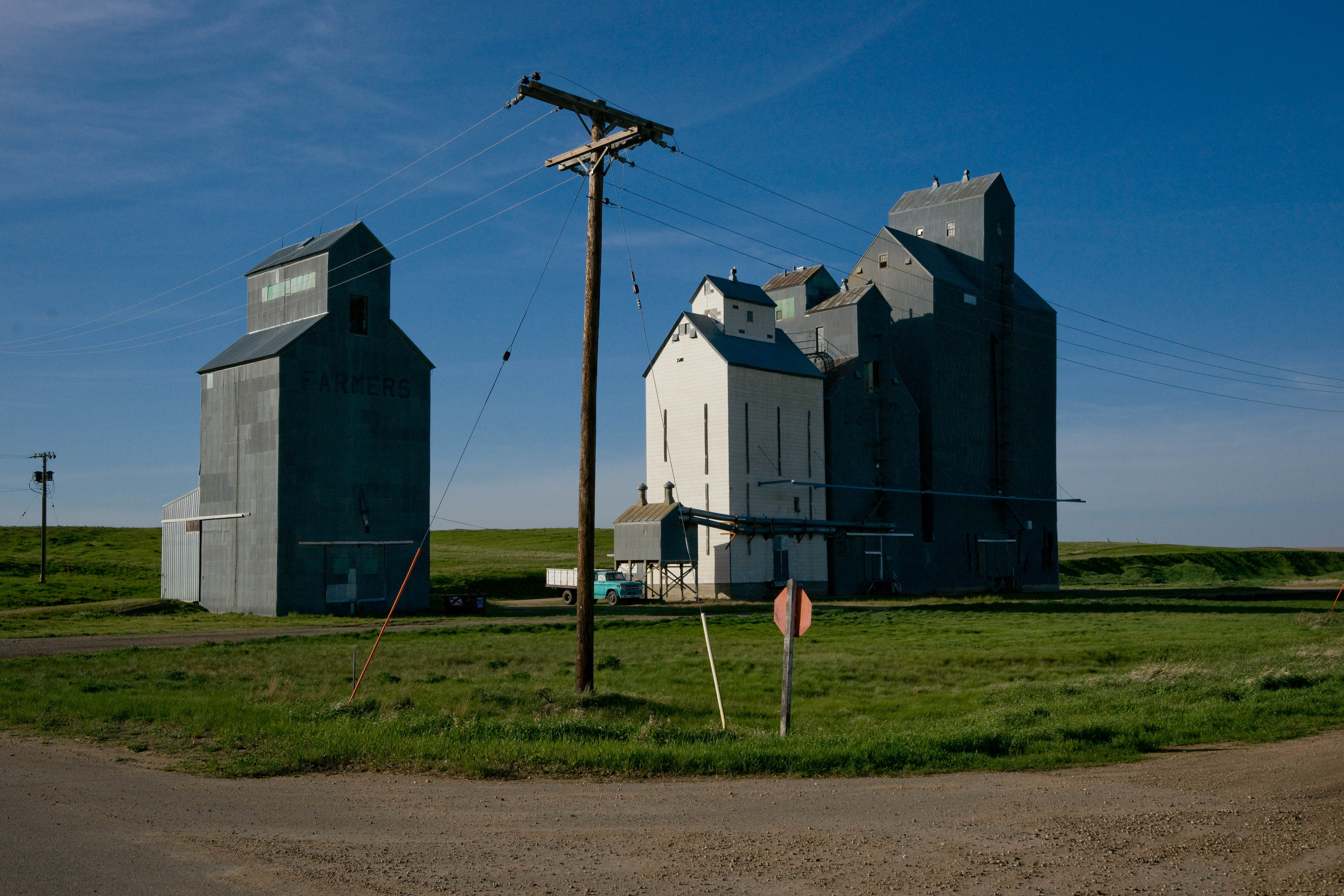 Grain elevators, Alamo, North Dakota From